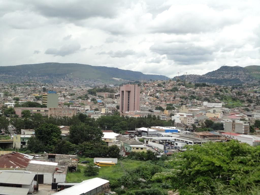 View of Comayagüela from La Paz Monument on Juan A Laínez Hill, Tegucigalpa, Honduras.